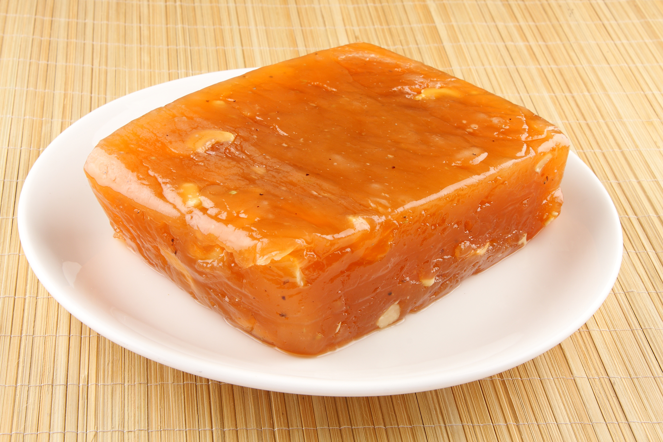 Calicut Halwa is a popular and famous sweet dish from Kerala.